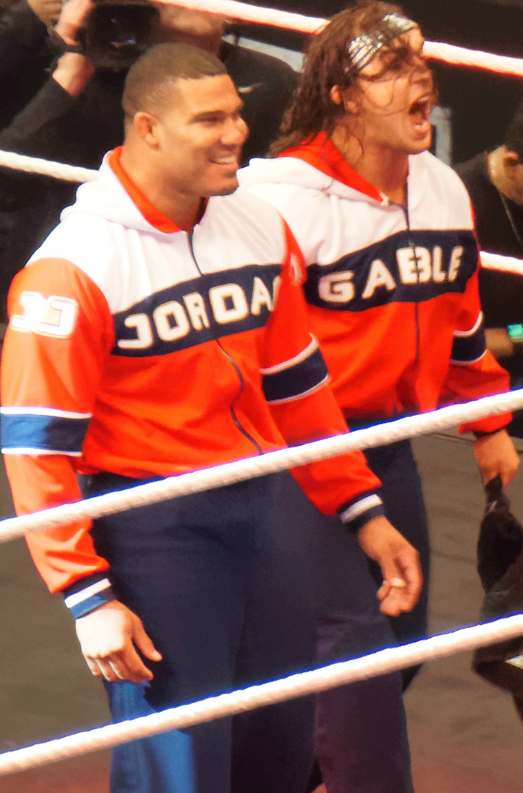 American Alpha team during the NXT Takeover Dallas event in April 1, 2016.